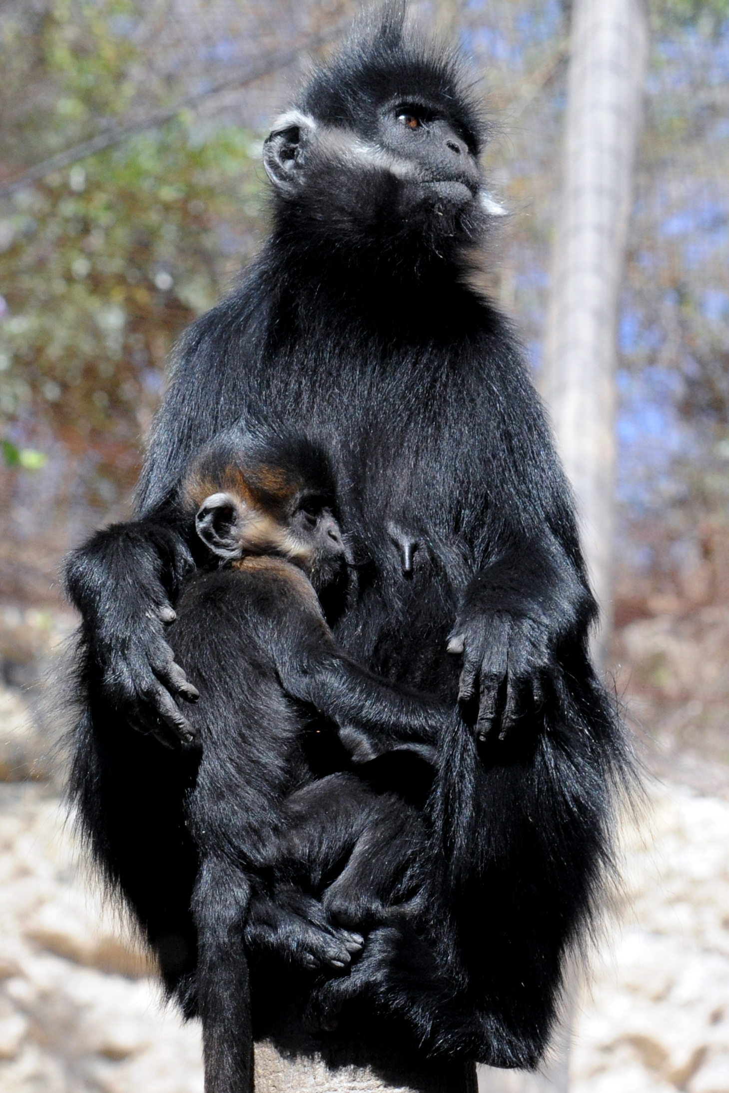 Francois' Langur at the San Antonio Zoo